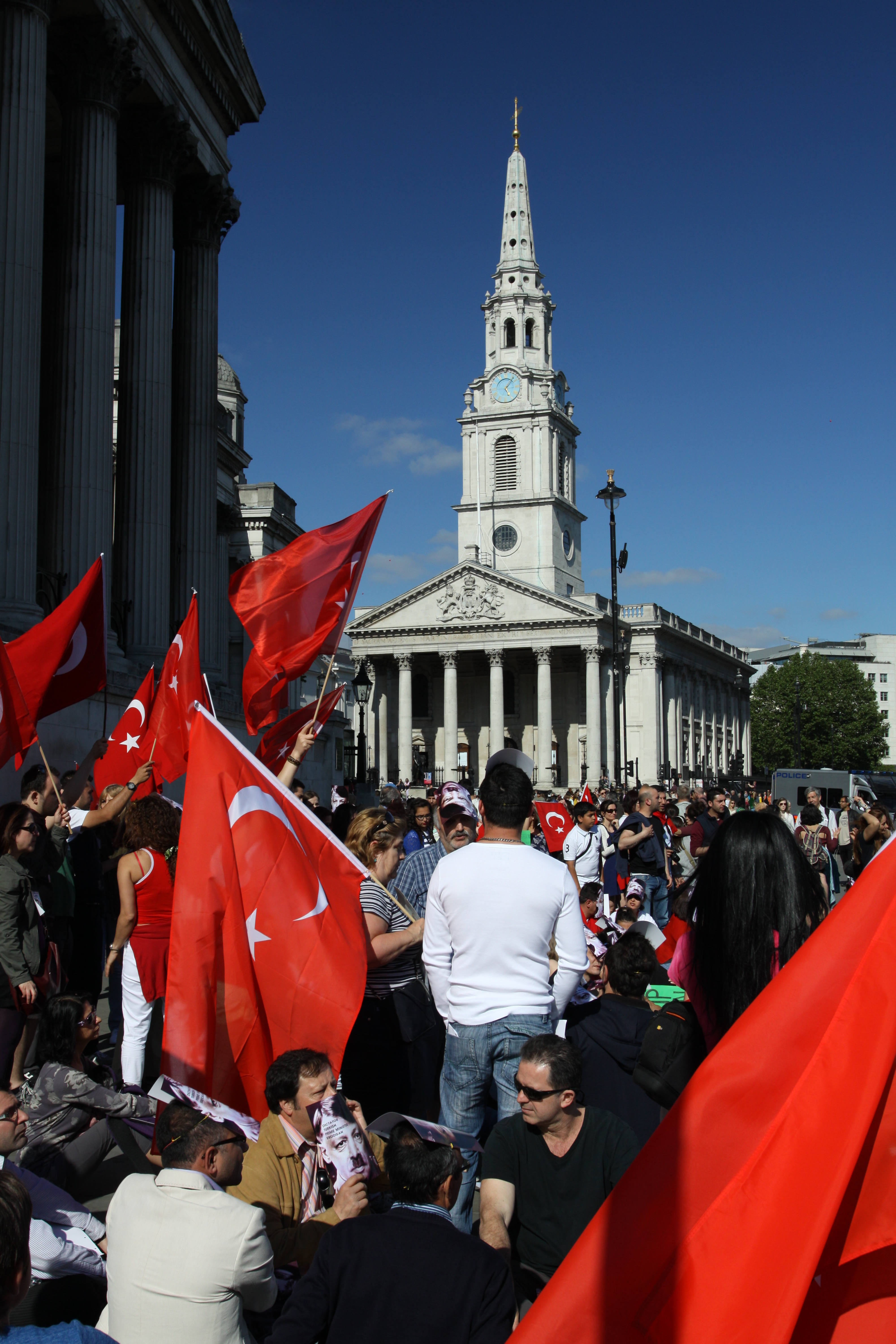 Solidarity rally in London, UK, in support of Taksim Gezi Park protests on Trafalgar Square in London, June 2013, England, Great Britain